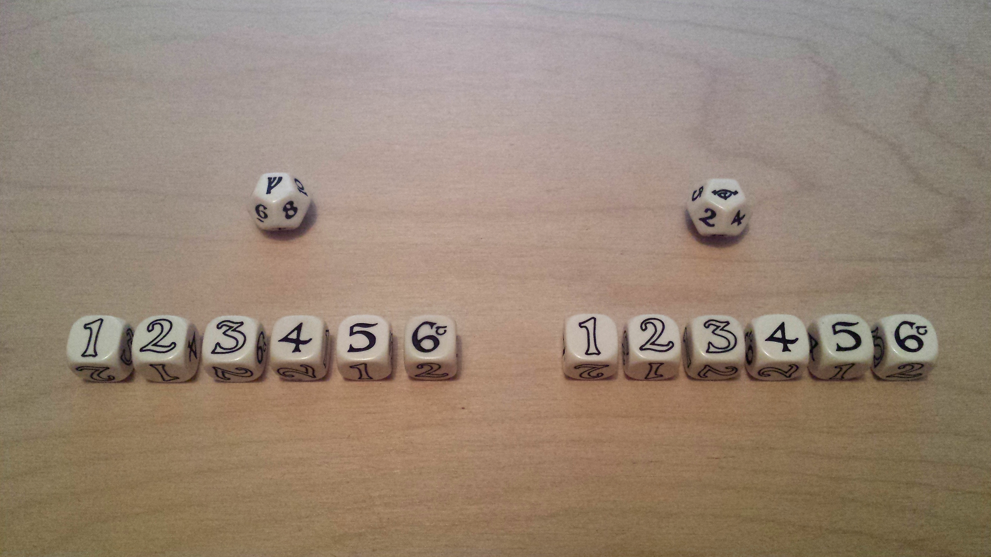 Two complete sets of dice from the role-playing game The One Ring, designed for roleplaying in the fictional universe of the Middle-earth by J. R. R. Tolkien. Each set consists of one 12-sided die and six 6-sided dice. The 12-sided die is marked with numbers 1-10, as well as two special symbols, Gandalf’s rune and the Eye of Sauron. The die on the left-hand side of the photograph shows Gandalf’s rune, which is a rune of the Elvish Cirth alphabet, and the die on the right-hand side of the photograph shows its "Eye of Sauron" side on top. The 6-sided dice are numbered 1-6, with a Tengwar rune on the 6 (Tengwar is another Elvish alphabet). Plus, on the 6-sided dice, numbers 1, 2 and 3 are colored white and 4, 5 and 6 are colored black.